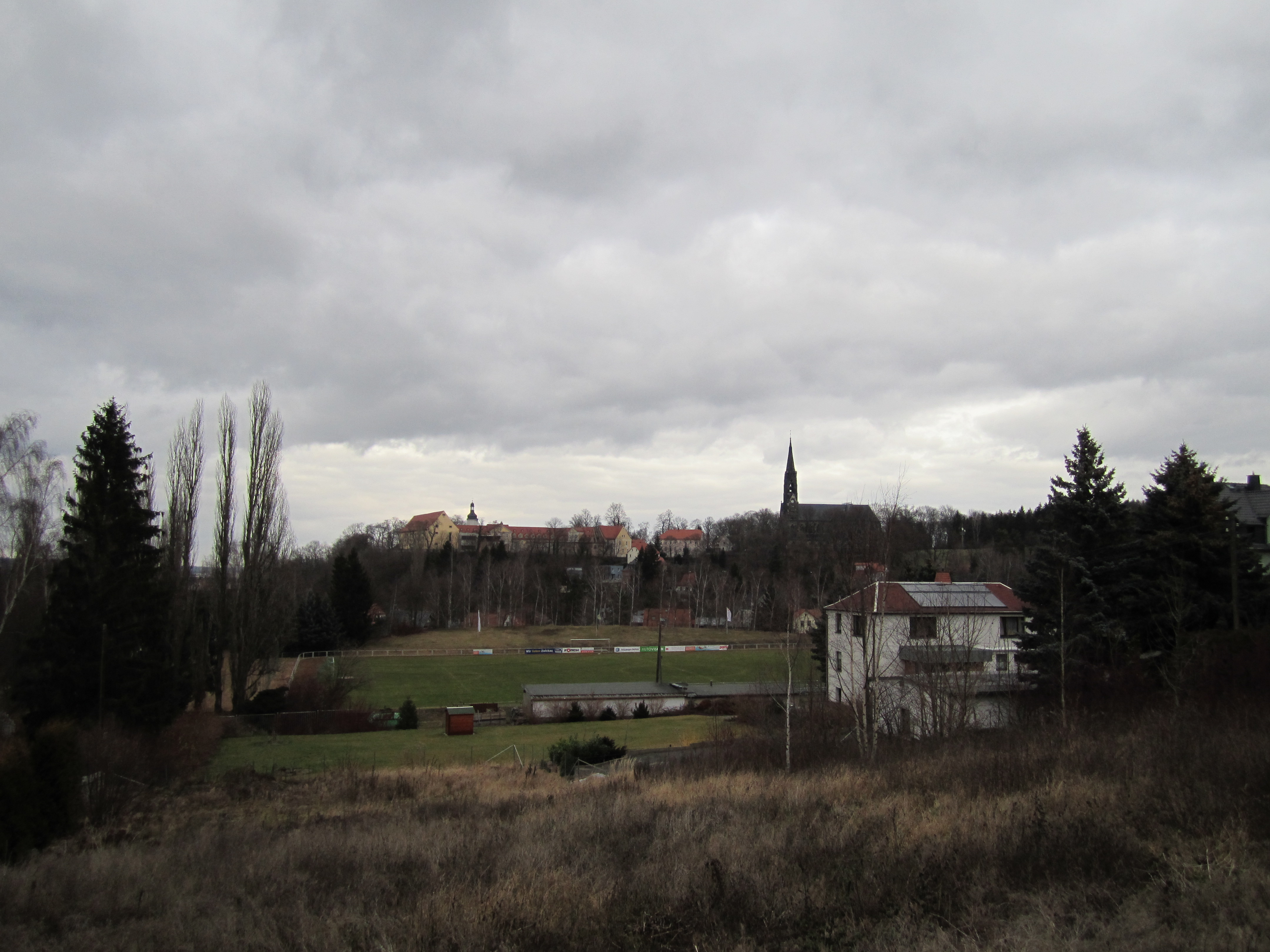 View at the Südkampfbahn ('South stadium') with Planitz castle and St. Lucas church in the background. Niederplanitz, city of Zwickau, Saxony, Germany.